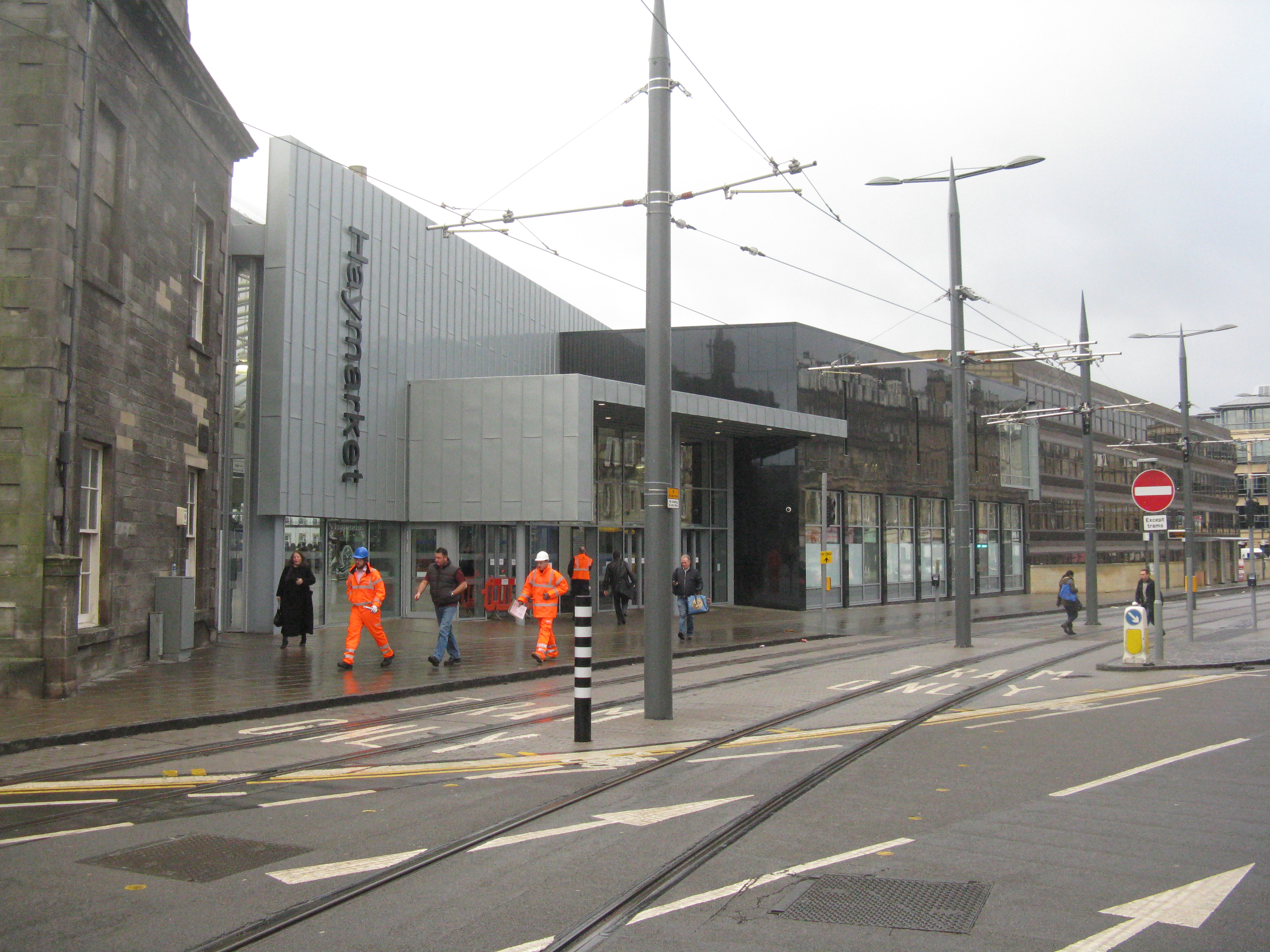 The view west across the new entrance of Edinburgh's Haymarket railway station in Haymarket Terrace/Clifton Terrace. The tracks for the Edinburgh Trams have come from West Maitland Street behind the camera, and enter here into their own dedicated lane for Haymarket tram stop, which is just about visible in the distance, opposite the three storey office block Rosebery House. At this time the tram line was still yet to open to the public, but the line was energised and trams were running.